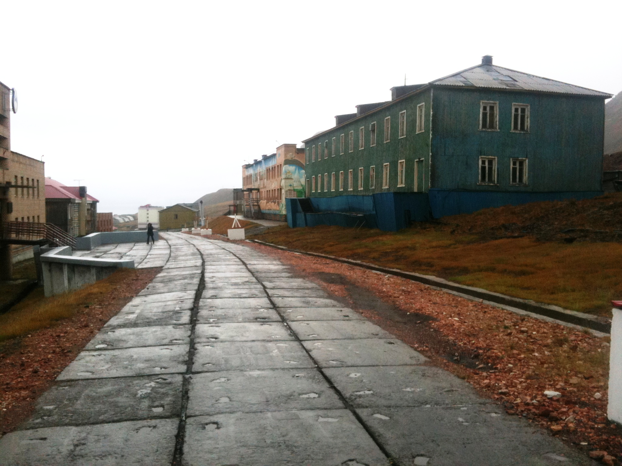 Barentsburg street scene. Spitsbergen